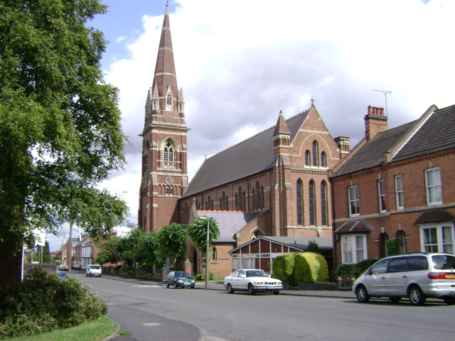 St John the Baptist parish church, Tachbrook Street, Leamington Spa: designed by local architect John Cundall and consecrated in 1878